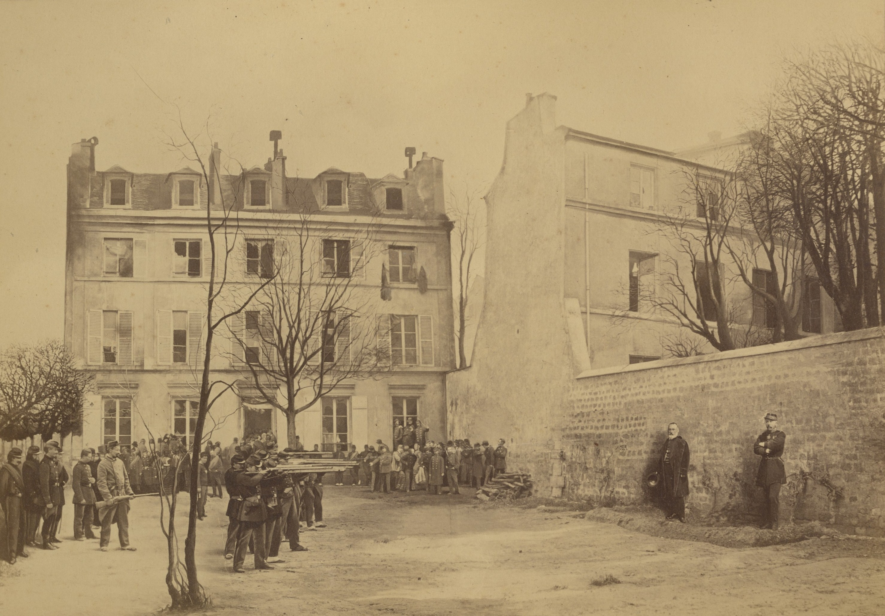 Following France’s defeat in the Franco-Prussian War and the fall of Napoleon III, thousands of Parisians revolted against the new royalist-leaning government and declared Paris an independent commune. Weeks of fighting ensued, during which Versailles troops attacked the city while the Communards threw up barricades, shot hostages, and burned government buildings. Soon afterward, Appert, a Parisian portrait photographer, issued “Crimes of the Commune,” a tendentious series of nine photographs of the insurrection that emphasized the criminal brutality of the rebels. Although based on real events, the photographs were utterly fabricated. Appert hired actors to restage each scene in his studio then cut and pasted the figures onto the appropriate backgrounds; atop the actors’ bodies he pasted headshots of the Commune’s key participants. The photographs were later banned by the French government for “disturbing the public peace” by sustaining anti-Communard sentiments—a testament to their effectiveness as political propaganda. N.B.: The former rue des Rosiers (Commune de Montmartre) was renamed rue du Chevalier-de-la-Barre in 1885. .